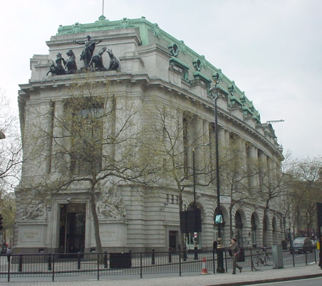 Photo taken by lonpicman Australia House Strand London